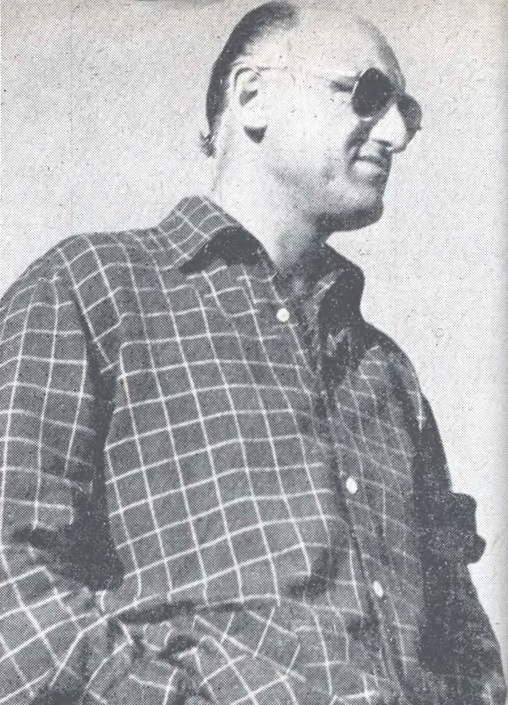 Polish film director Jerzy Kawalerowicz.